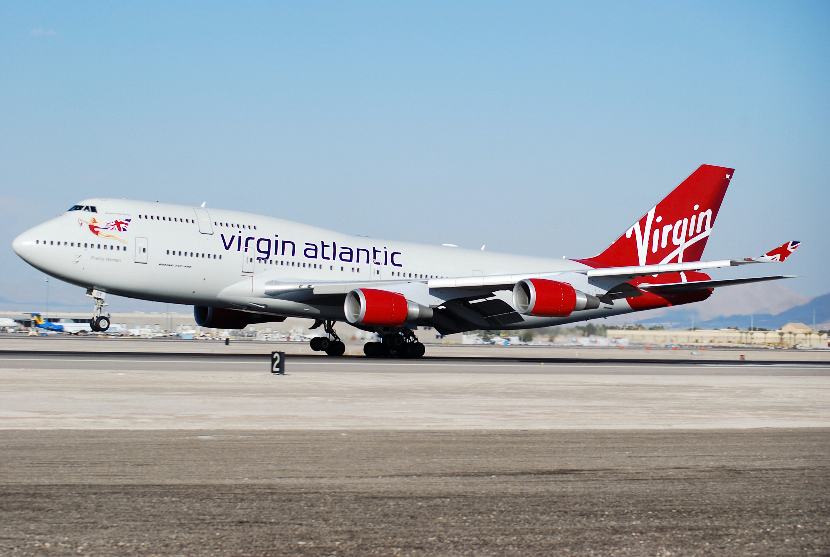 "Pretty Woman"-Virgin Atlantic 747-400